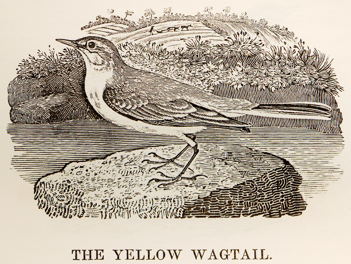 Woodcut by Thomas Bewick of Yellow Wagtail in History of British Birds 1797